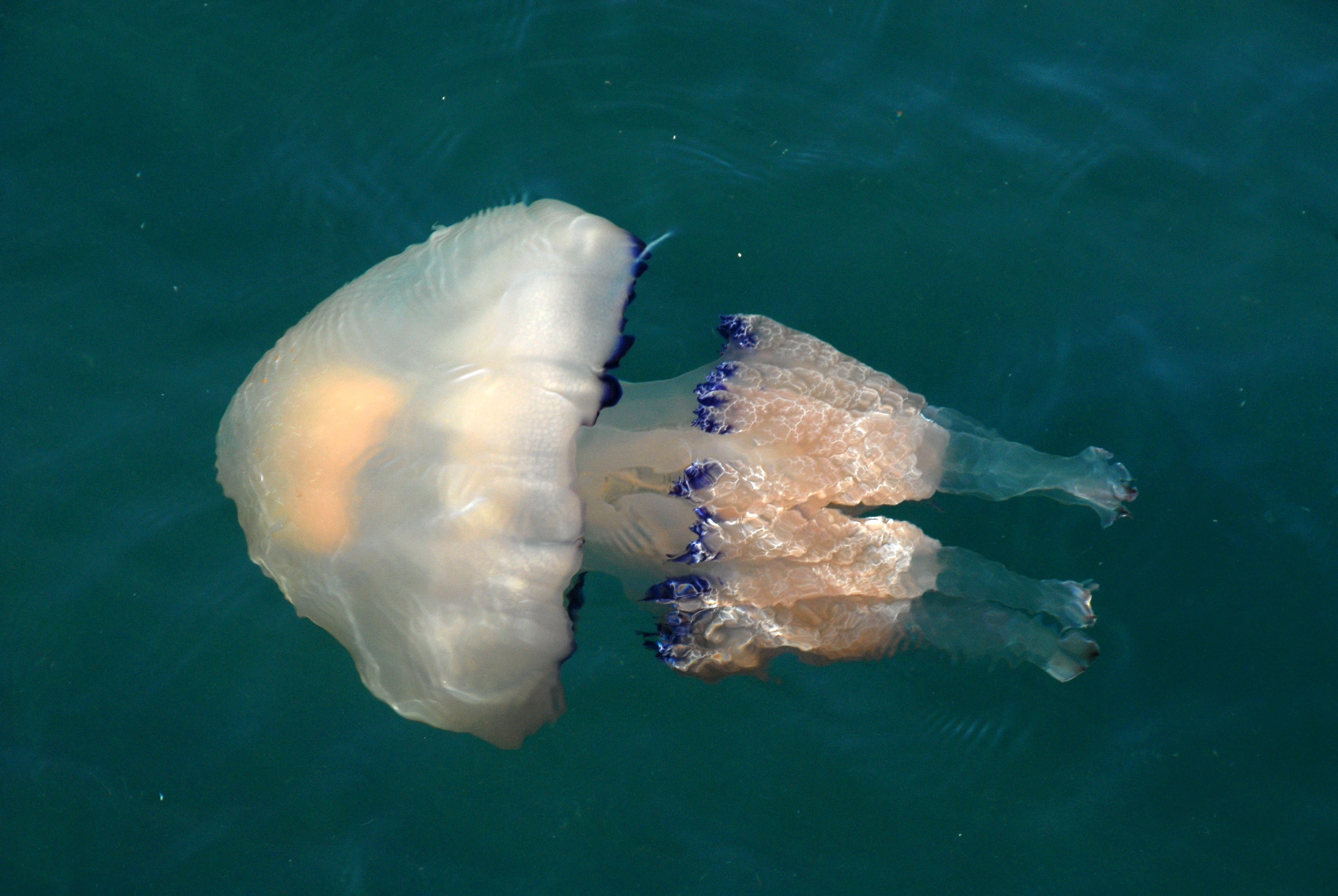 Jellyfish Rhyzostoma pulmo in the port basin of Trieste, Friuli Venezia-Giulia, Italy